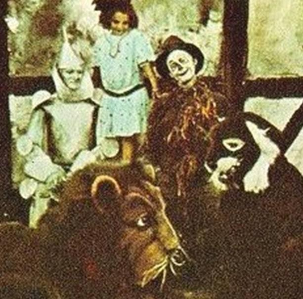 Production still from 1908, showing the quality of the tinting process.